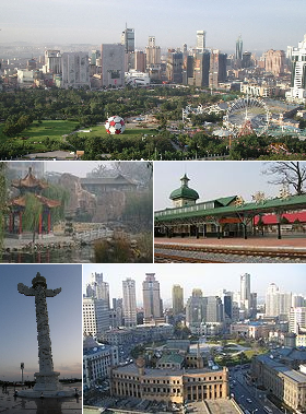 Montage of various Dalian images